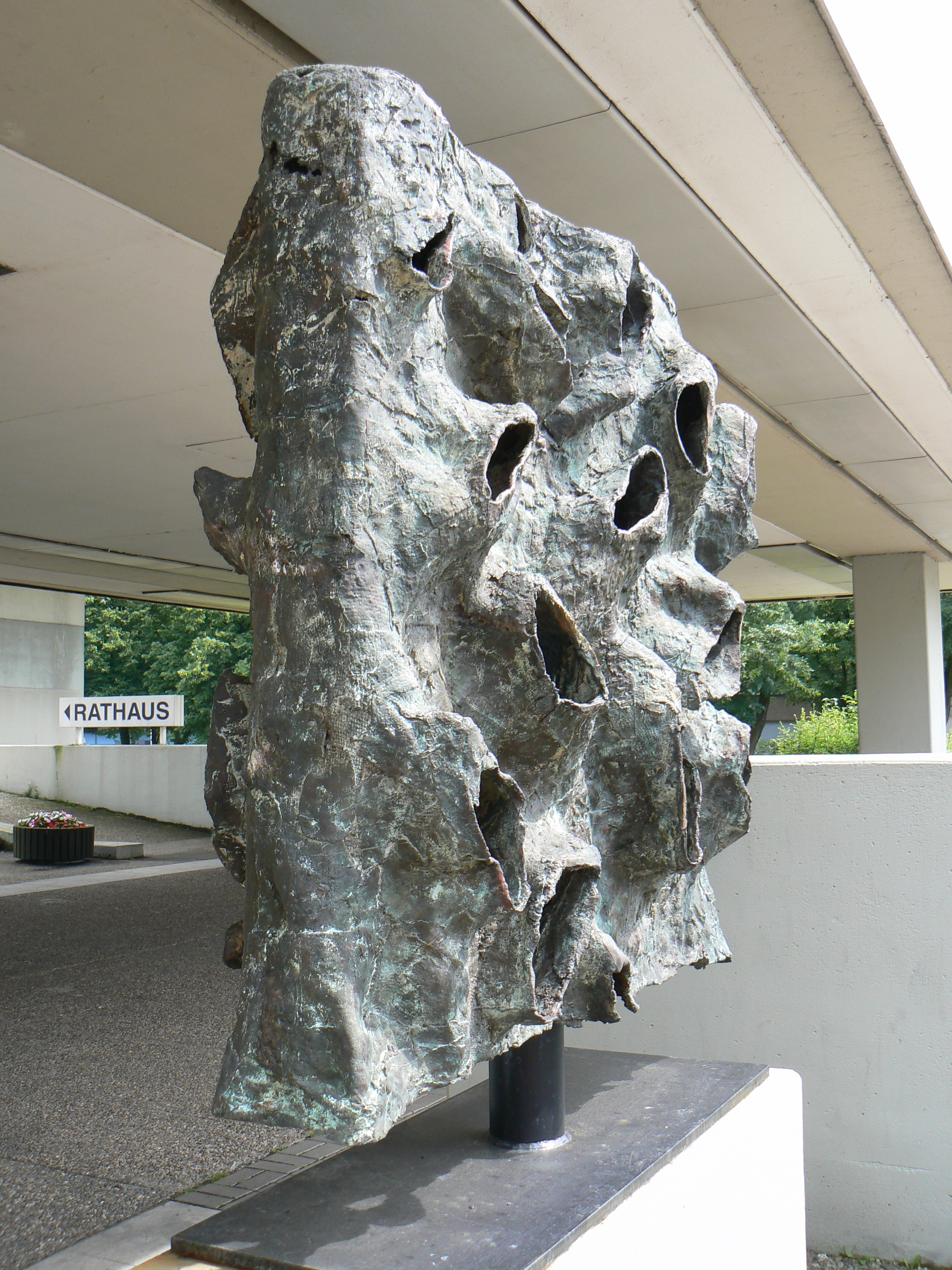 Sculpture Afrikanisch, später Gruß an Willi Baumeister (2002) by Emil Cimiotti in front of the City Hall in Marl/Germany. Collection: Skulpturenmuseum Glaskasten